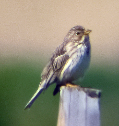 Corn Bunting (Miliaria calandra Syn. Emberiza calandra)